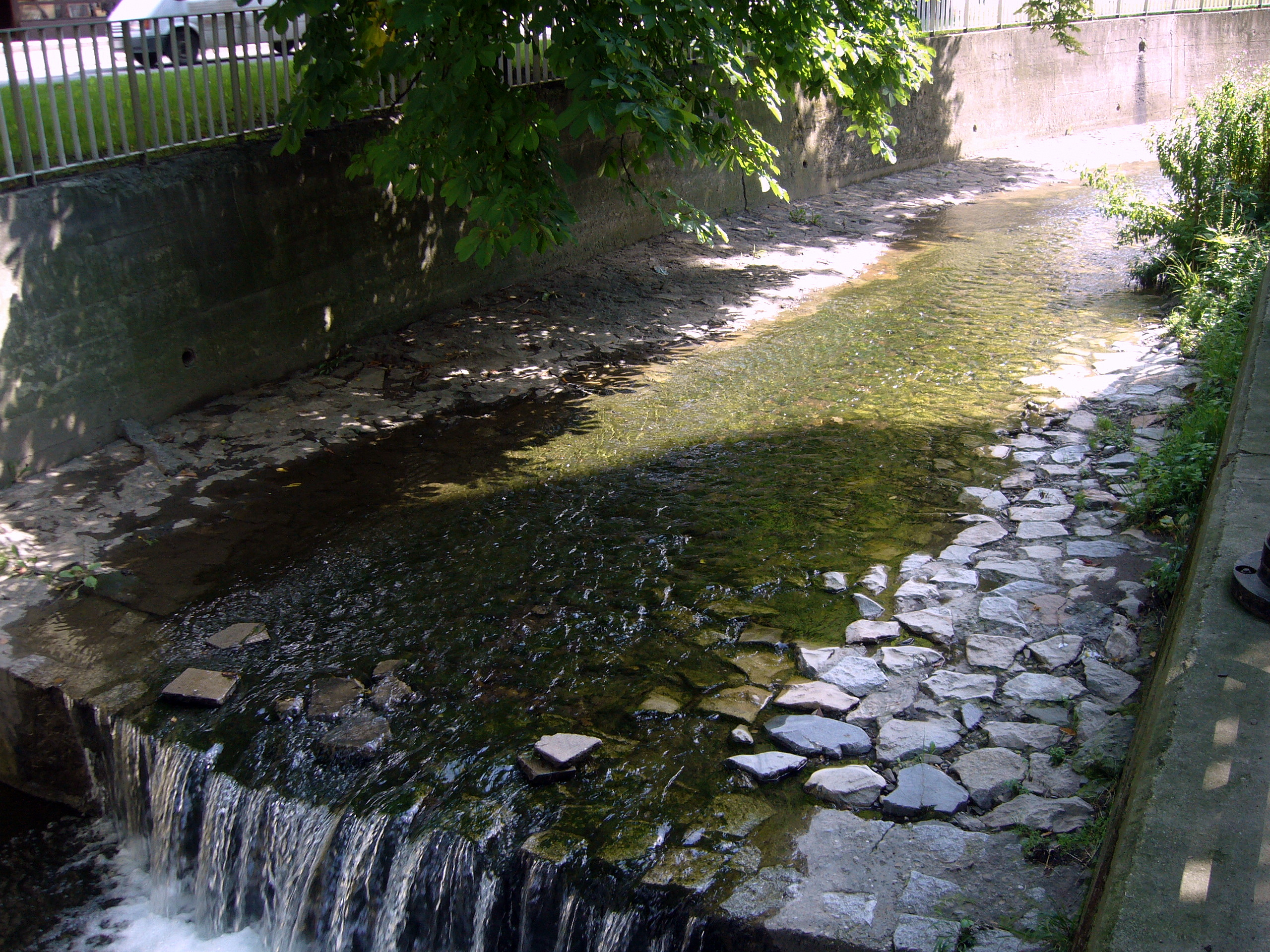 Niwka River in Bielsko-Biala.